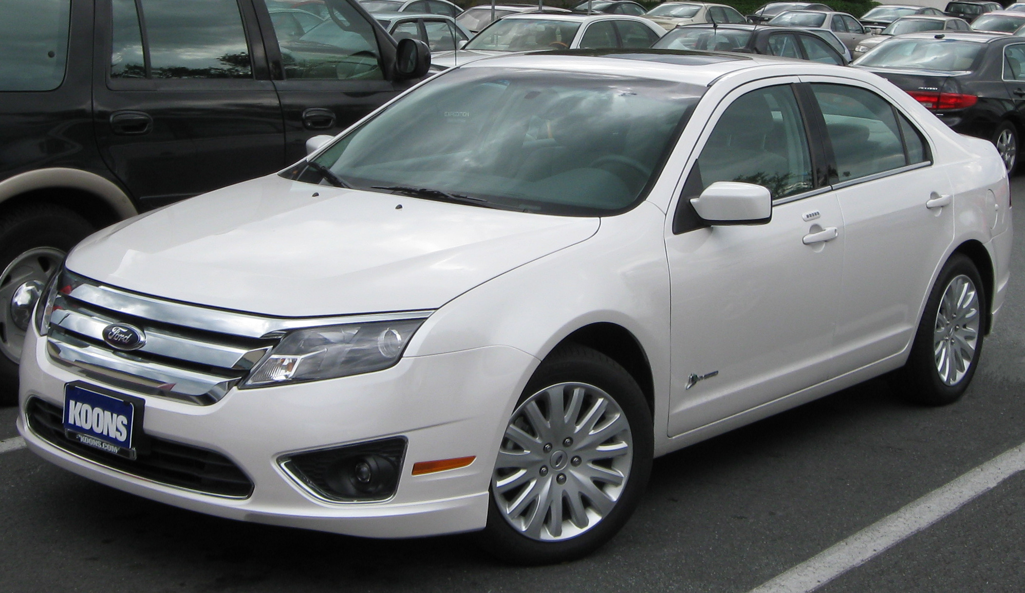 2010 Ford Fusion Hybrid photographed in Wheaton, Maryland, USA.